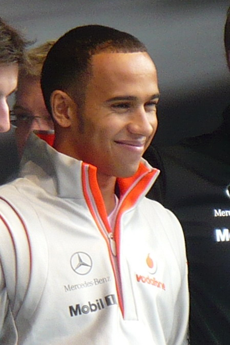 Lewis Hamilton bei stars and cars 2007 Stuttgart